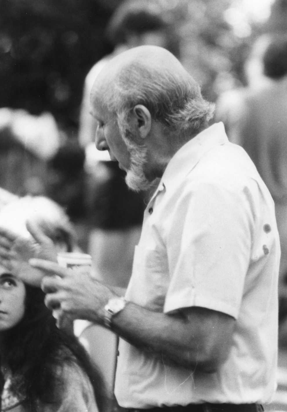 Leon Henkin, UC Berkeley Logic Group picnic, 1977 Photo by J. Kadvany